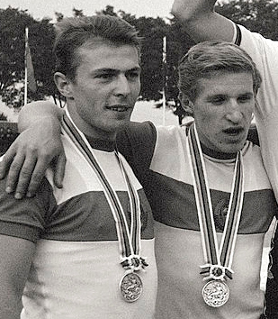 Soviet cyclists Imants Bodnieks and Viktor Logunov after the tandem on track awards ceremony at the Tokyo Olympics.Tokyo, October 1964